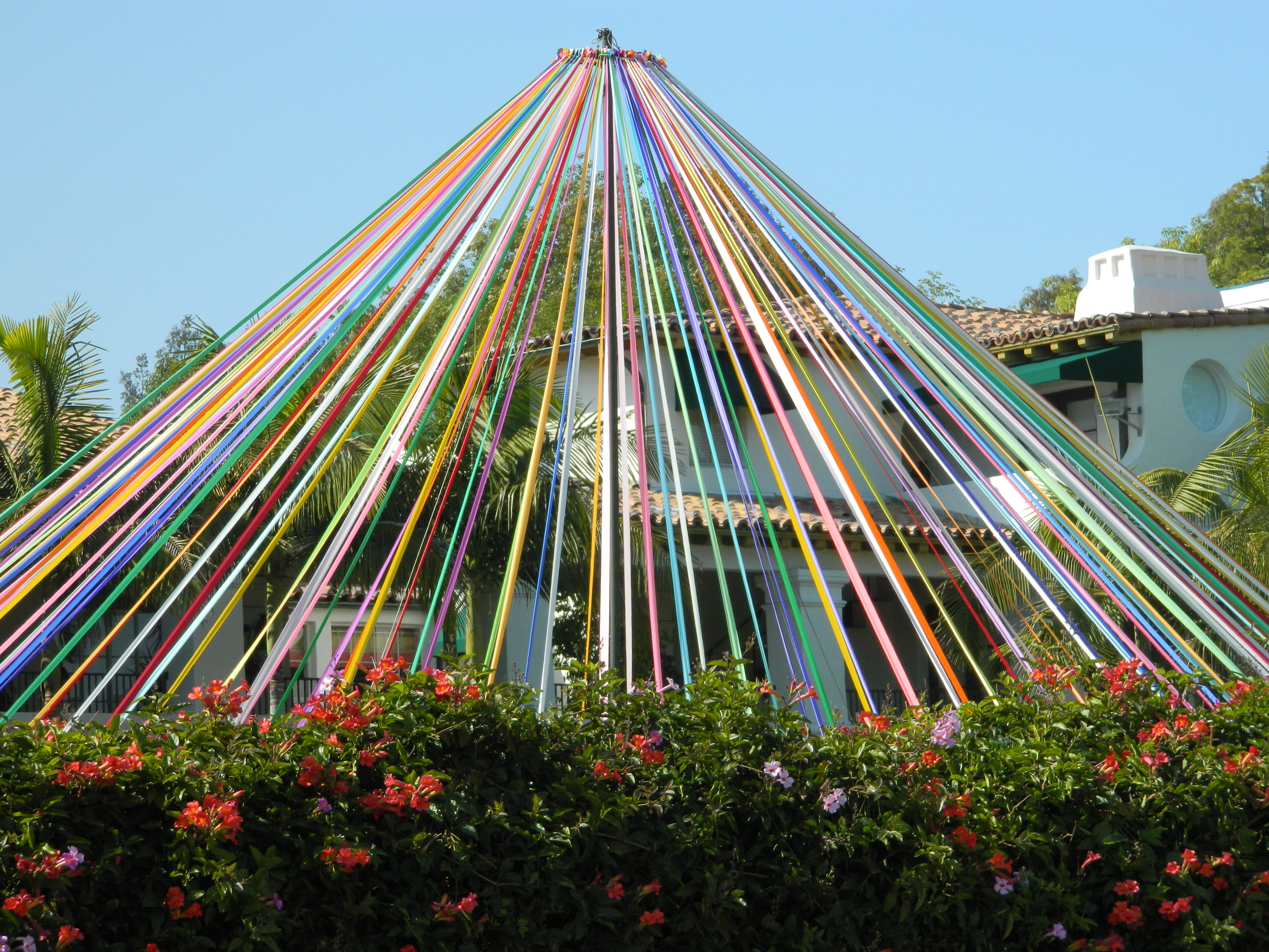 Maypole at Archer School for Girls (former Eastern Star Home) in Brentwood, Los Angeles, California